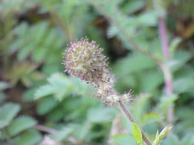 Species: Acaena hieronymi Family: Rosaceae Image No. 3